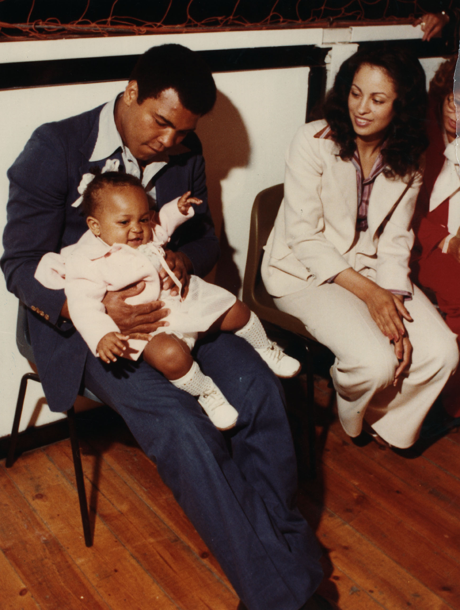 This is a photograph of Muhammad Ali and his Family during their visit to Washington, UK in the 1970's. Reference: 5417/291/1 This collection of images has been assembled in support of the Washington Heritage Festival 2013. The celebration of Washington brings together a variety of different themes. Washington is a Town in the City of Sunderland, Tyne & Wear. It is traditionally associated with Coal Industry, and notably known as the home of the Washington Family, ancestors of the First President of the United States George Washington. However, in 1964 Washington was designated a New Town and drastically changed. With the introduction of new industry such as the Nissan Car Factory Washington experienced a huge redevelopment in both its economy and community. These Photographs are taken from the Records of the Washington Development Corporation; held at Tyne & Wear Archives. The records document this change in industry, landscape and community in Washington between 1964 & 1988, and consist of many photographs. For more information on the Washington Heritage Festival, 21st September 2013 please click here. (Copyright) These images are Crown Copyright. We're happy for you to share these digital images within the spirit of The Commons. Please cite 'Tyne & Wear Archives & Museums' when reusing. Certain restrictions on high quality reproductions and commercial use of the original physical version apply though; if you're unsure please